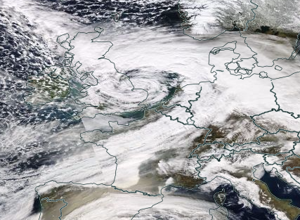 Satellite image of storm Doris over the UK